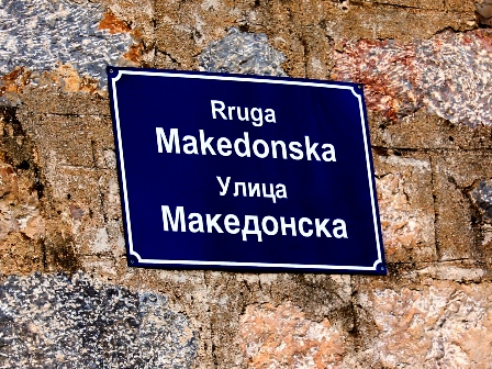 Bilingual (Albanian and Macedonian) street sign in Liqenas, Albania.